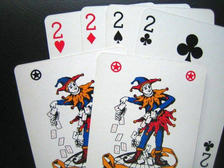 The most powerful cards in the game of Dou dizhu. As single cards these are the strongest ones. Two Jokers also make the "Royal" Bomb. Four 2's, of course, is also a Bomb.